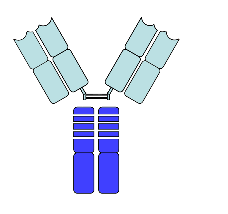 Fab (light blue) and Fc (dark blue) fragments of an antibody cut by pepsin.